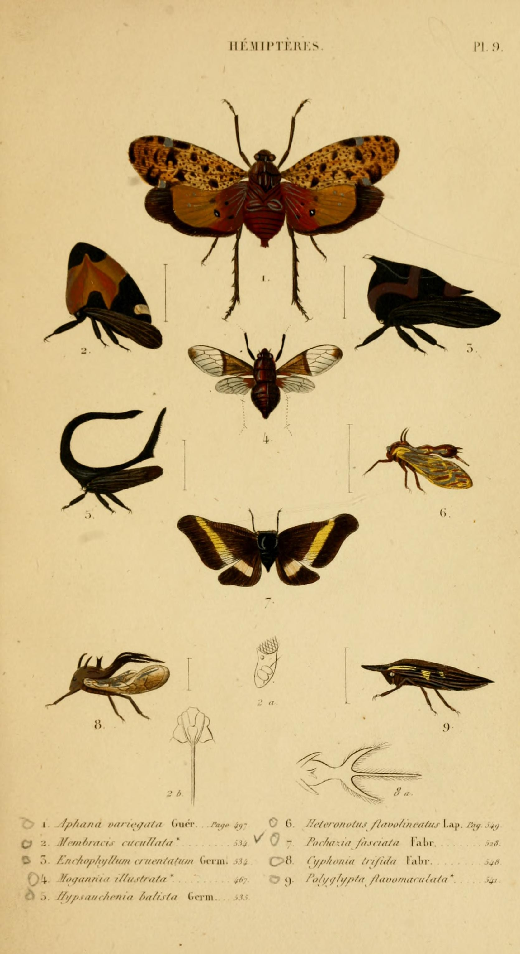 HistoireNaturelleInsectes.Hémiptères.Plate9